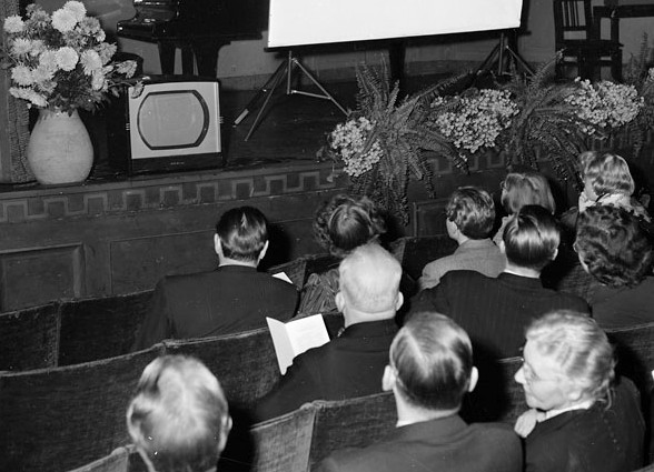 Hötorget 8. Visning av television i Konserthuset. 1950-1950 FOTOGRAF: Kjellström, John (Pressfotograf). Svenska DagbladetBILDNUMMER: SvD 28093Stadsmuseet i Stockholm